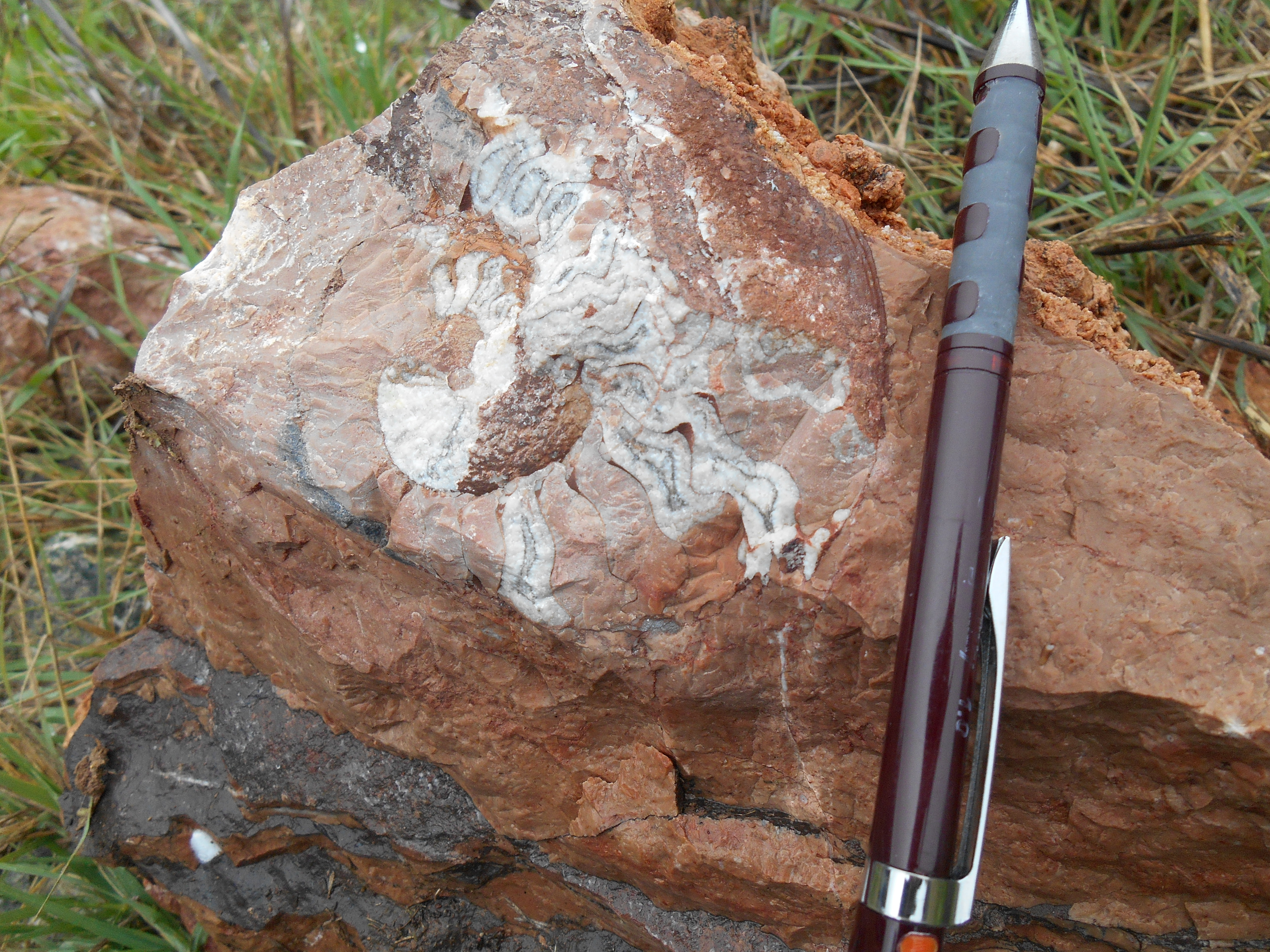 Ammonite fossil on a Triassic Hallstatt limestone, Epidavros, Greece. Pen used for scale.